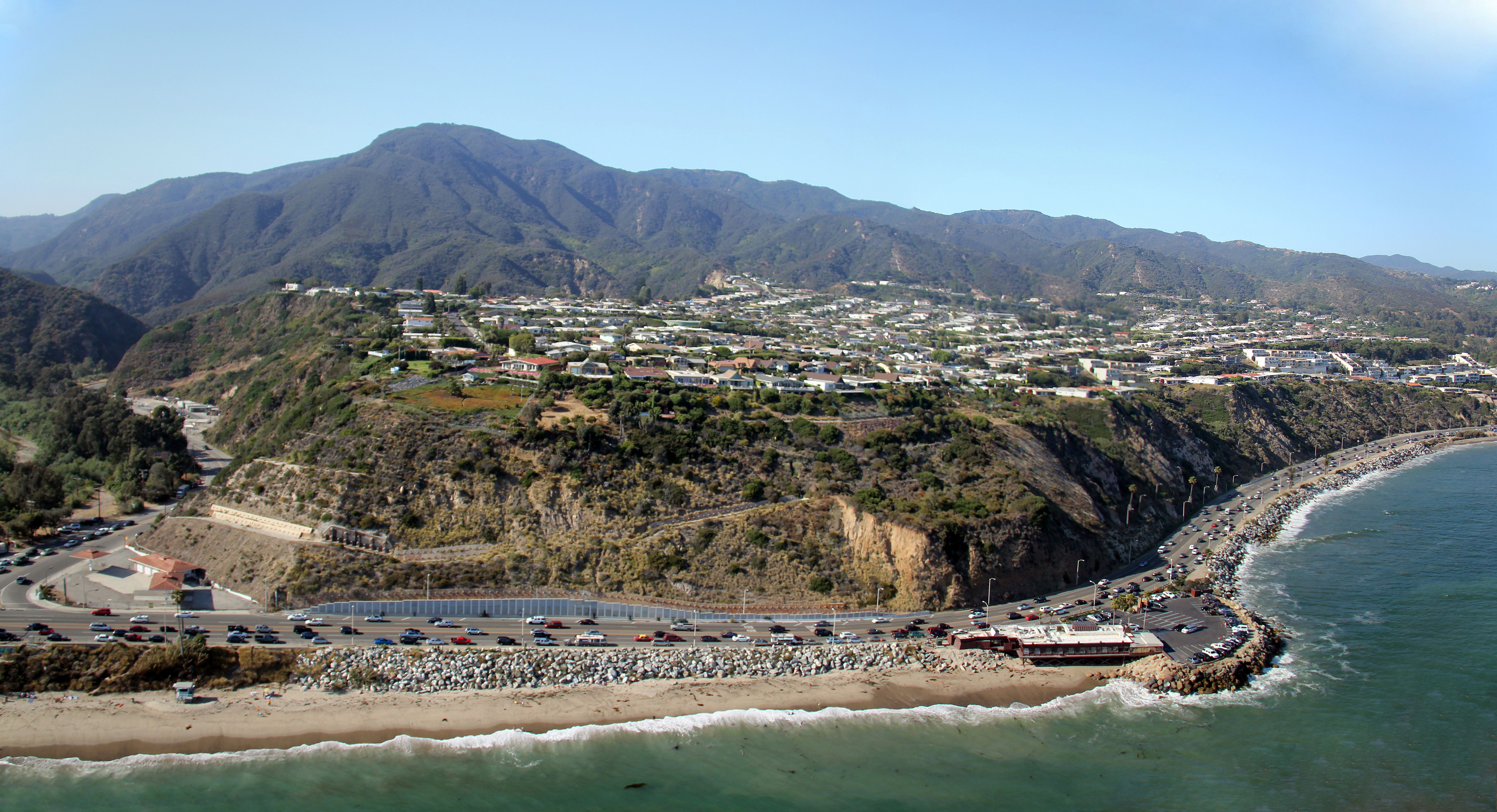 Aerial photograph of eastern Malibu, California.